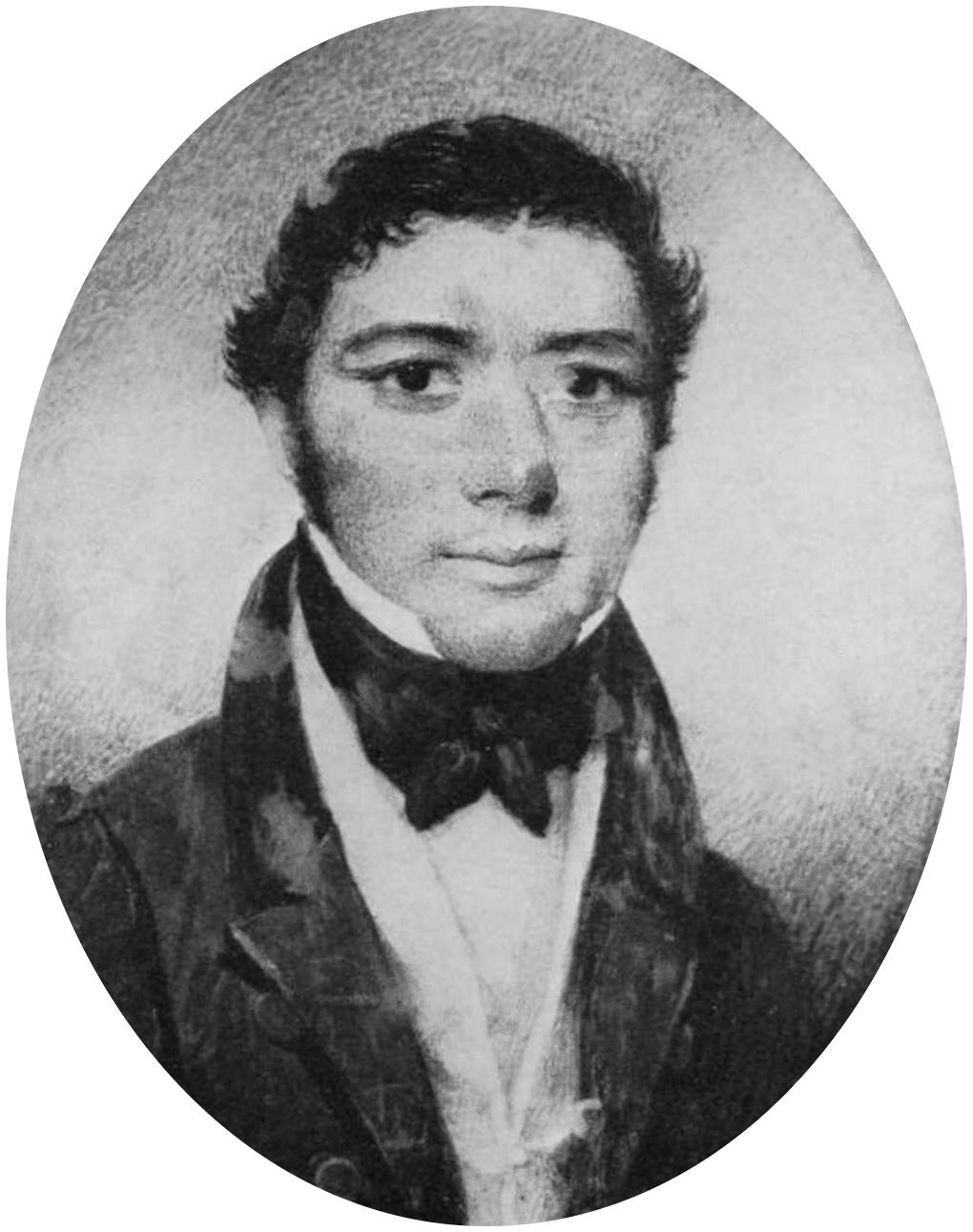 Captain John Dominis (1796–1846) came to America from Trieste (probably originally from Croatia) in 1819, made several historic voyages through the Pacific Northwest of America and across the Pacific. Then moved to Honolulu and built a historic house called "Washington Place", became a Prince of the Kingdom of Hawaii. The house was the governor's mansion from 1918 to 2001, and is a National Historic Landmark.